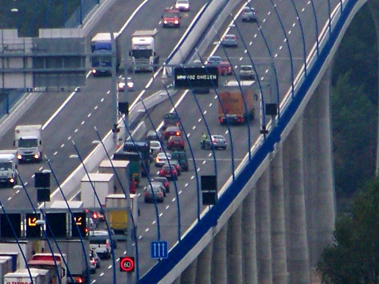 Prague, the Czech Republic, A traffic congestion on the Expressway R1 at Radotín Bridge.